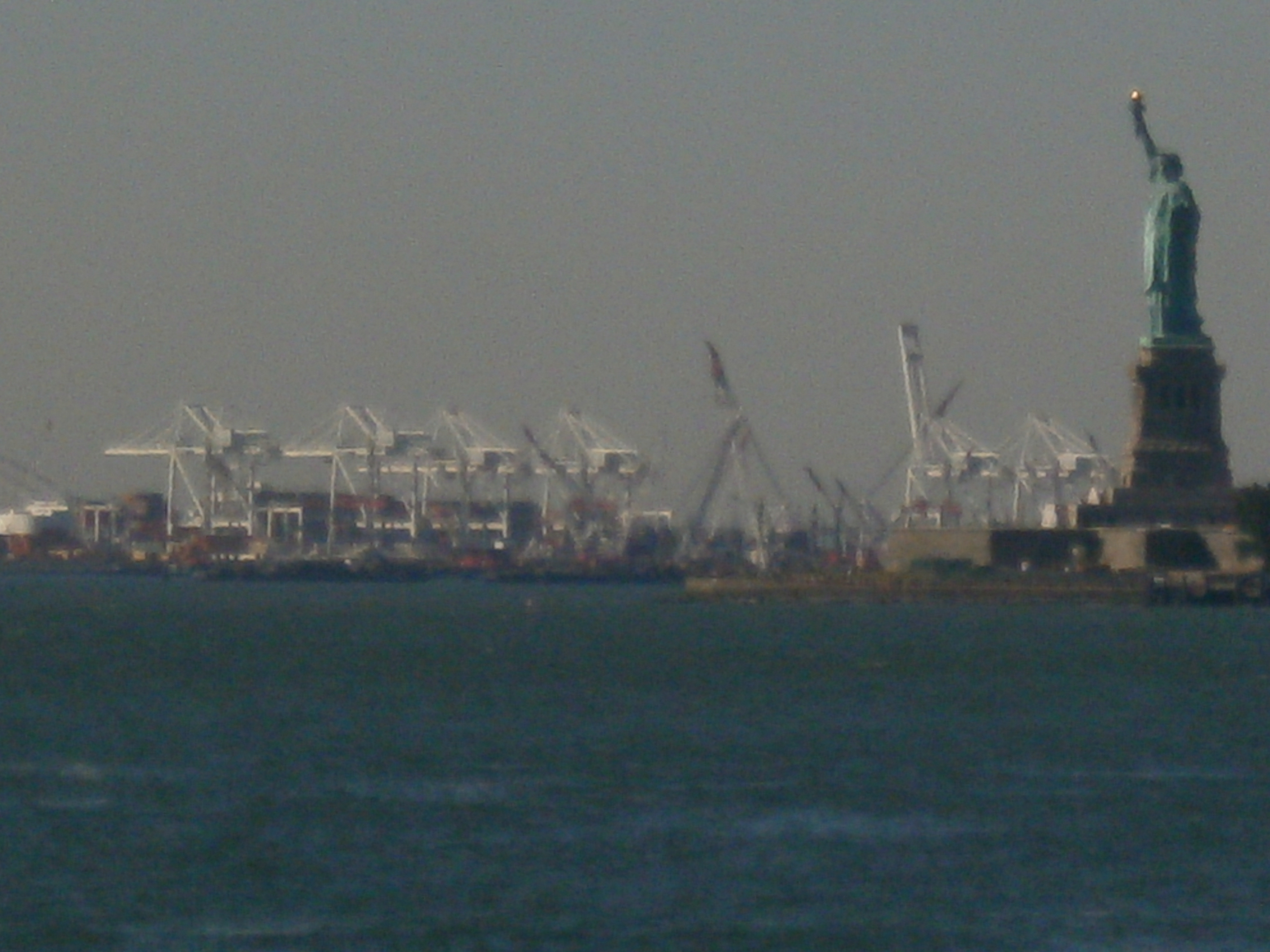 Port Jersey and Statue of Liberty looking west to Jersey City from SI Ferry